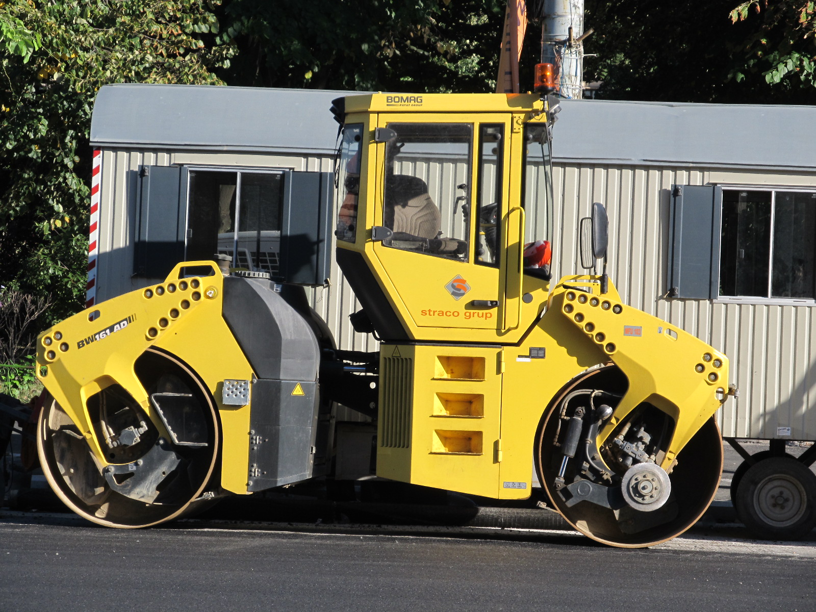 A BOMAG BW 161 AD articulated heavy vibratory roller seen in Bucharest near Gara de Nord